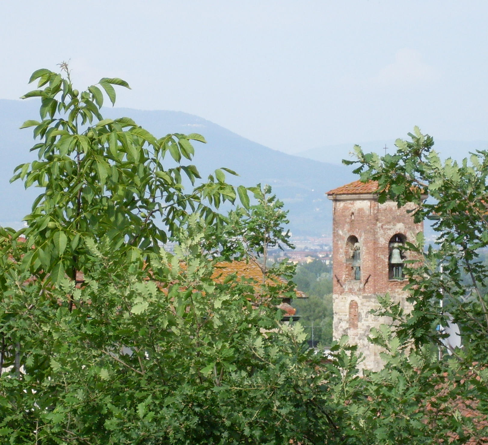 Bell Tower of the San Giovanni Battista's Church in Signa, Florence, Italy